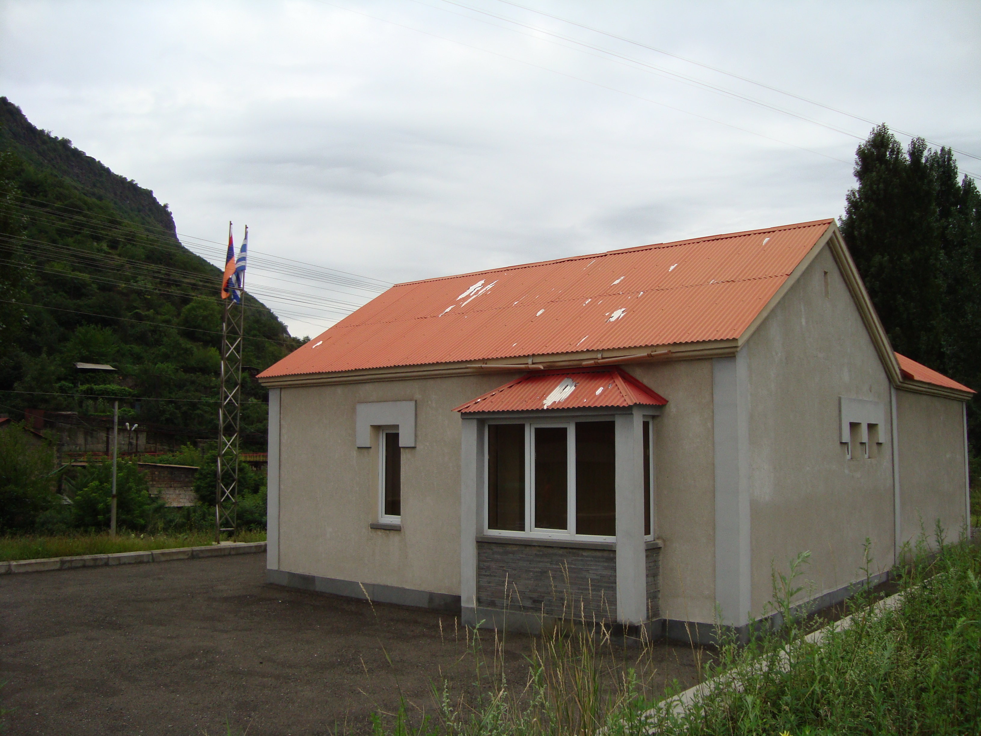 The building of the Greek diaspora in Alaverdi, Lori province, Republic of Armenia.